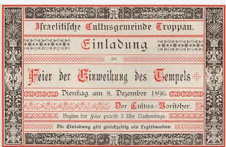 Synagogue of Troppau (Opava) in Tchecoslovaquia, built by architect Jakob Gartner (1861-1921) in 1896 and destroyed by the nazis during Cristal Nacht (9 to 10 november 1938):Invitation for the inauguration